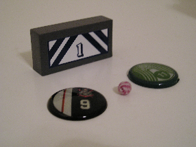 Button football: Typical ball, buttons, and goaltender game pieces Robert Neddermeyer (Megamemnon)